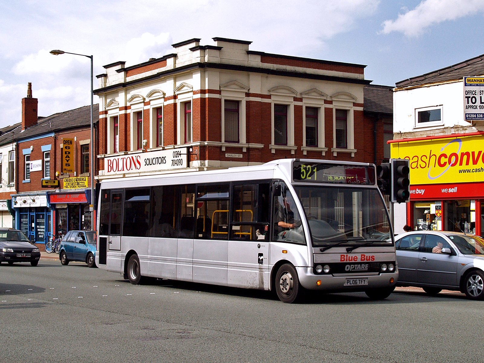 Blue Bus (Lancashire) Limited (originally Beacon Coaches) PL06 TFY, an Optare ‘Solo’ M920 built 2006 with an Optare B33F body turns off Market Street, Farnworth onto King Street with the 16:45 Little Lever (Coronation Square) to Blackrod (Black Horse) via Farnworth, Royal Bolton Hospital and Westhoughton 521 service. Tuesday 1st July 2008